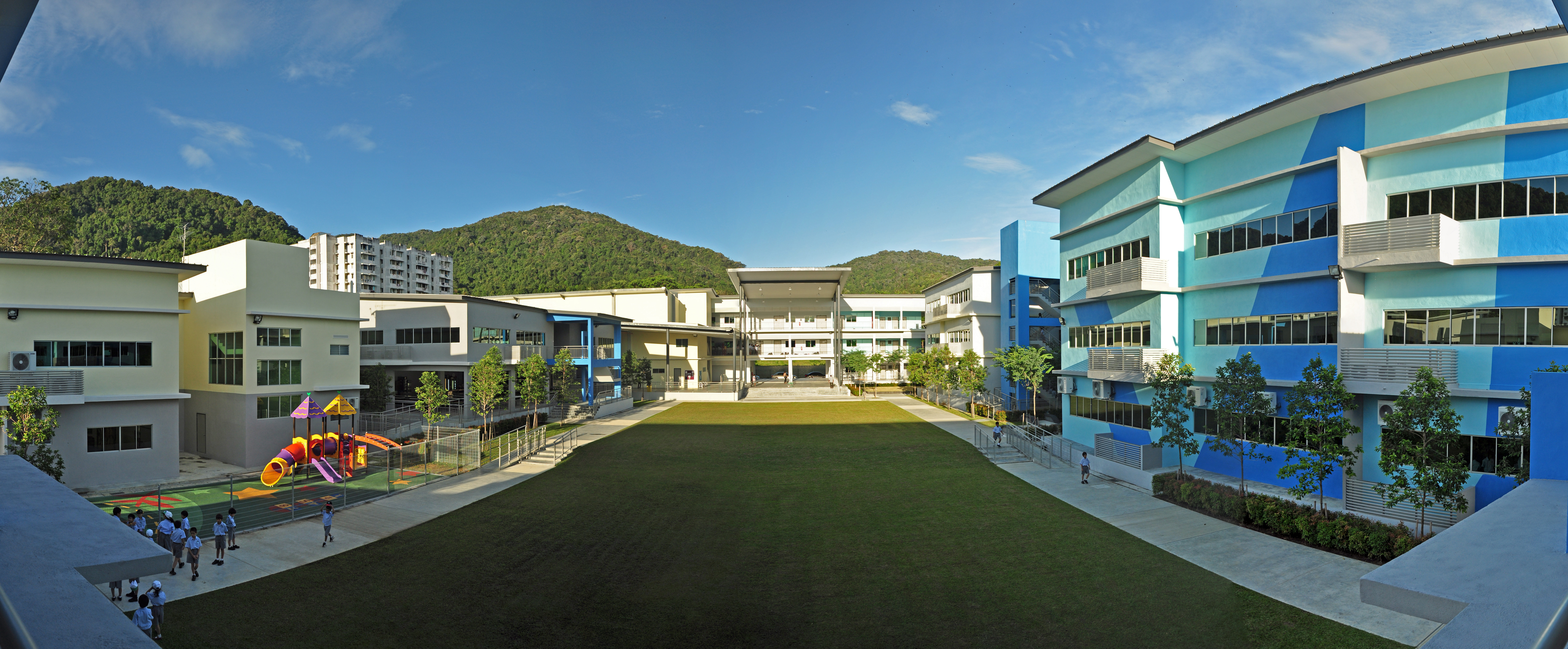 School campus shot of Tenby Schools Penang, a unique private international school in Penang, Malaysia offering both British & Malaysian curriculum